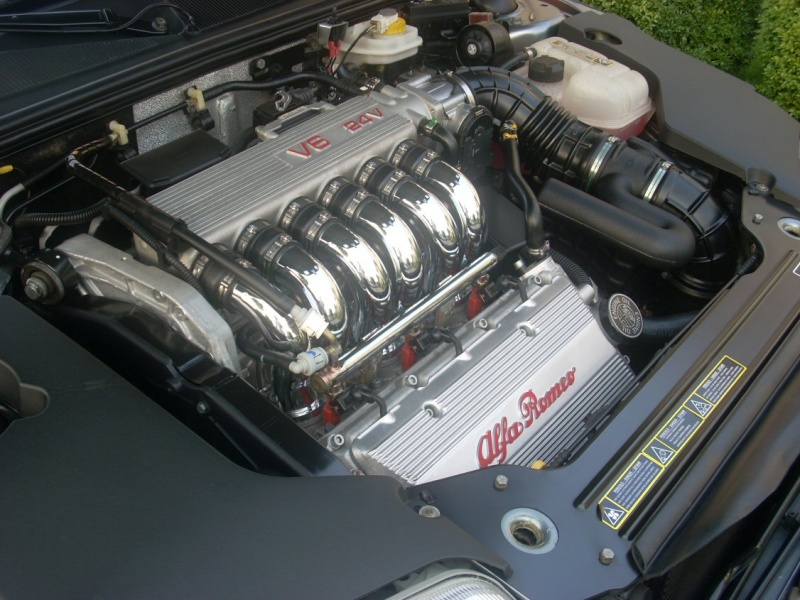 Alfa Romeo 3.0 24V engine (model CF3), from a 2001 Alfa Romeo Spider